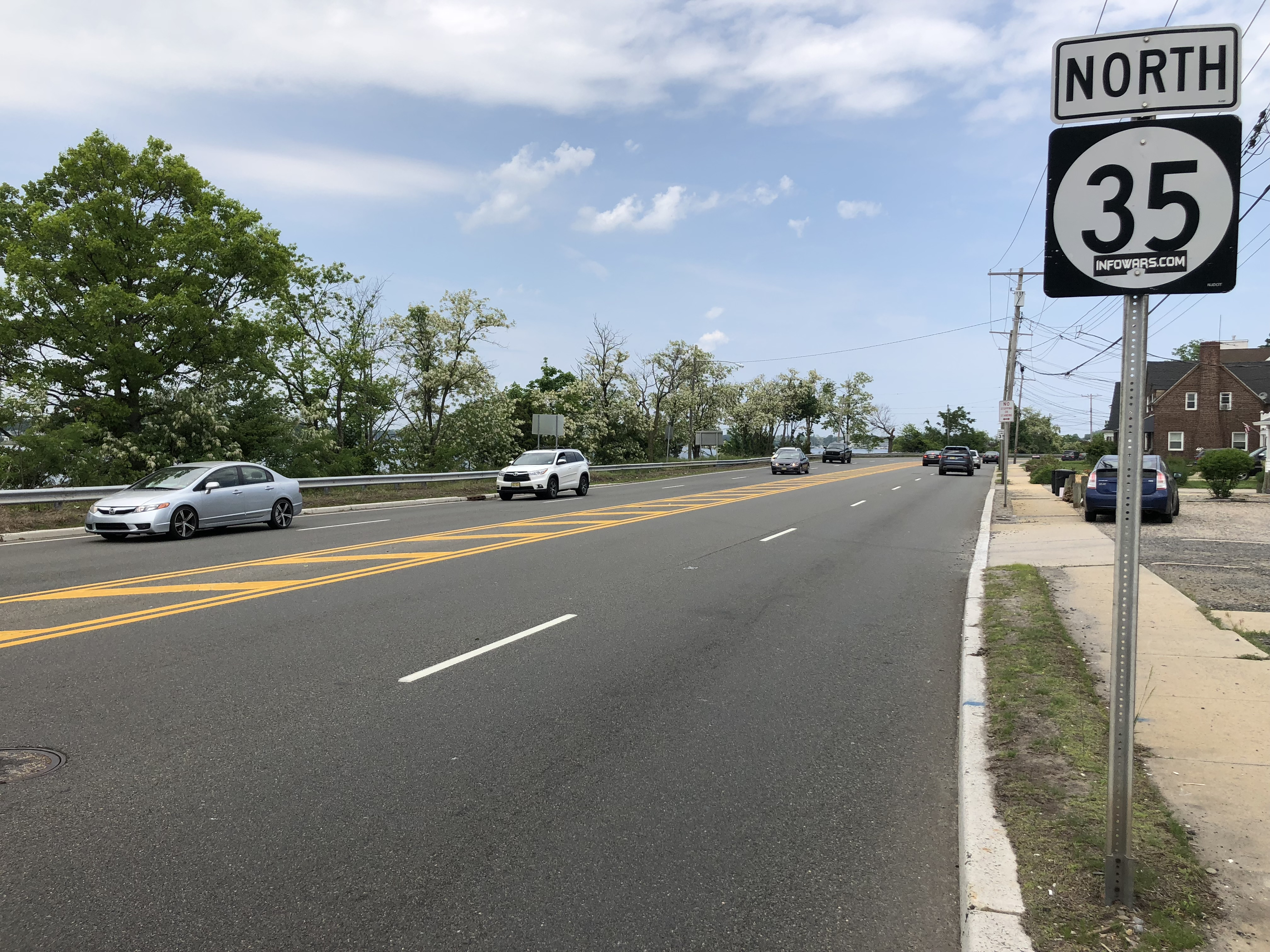 View north along New Jersey State Route 35 (River Road) at 16th Avenue in Belmar, Monmouth County, New Jersey